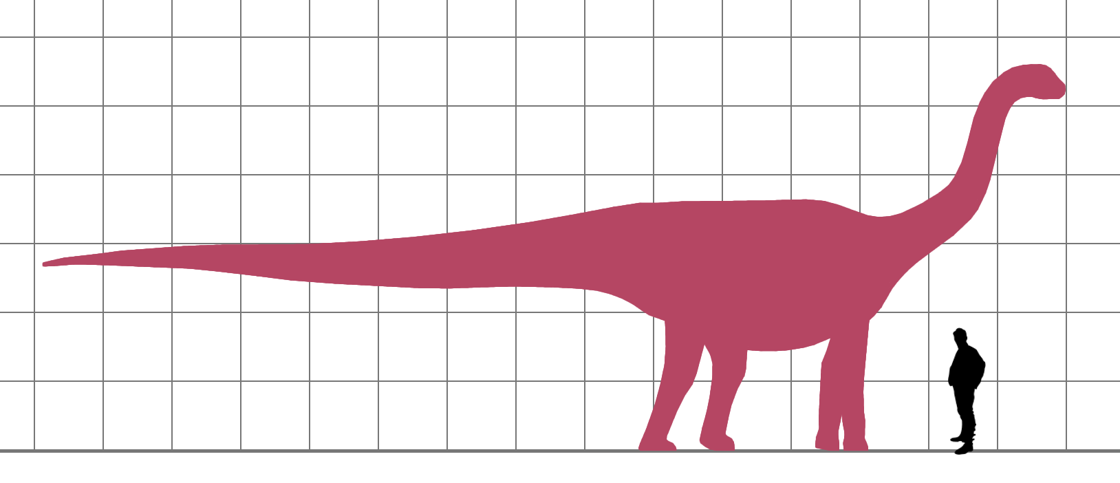 Scale diagram comparing the side and above views of the eusauropodan Patagosaurus and a human.